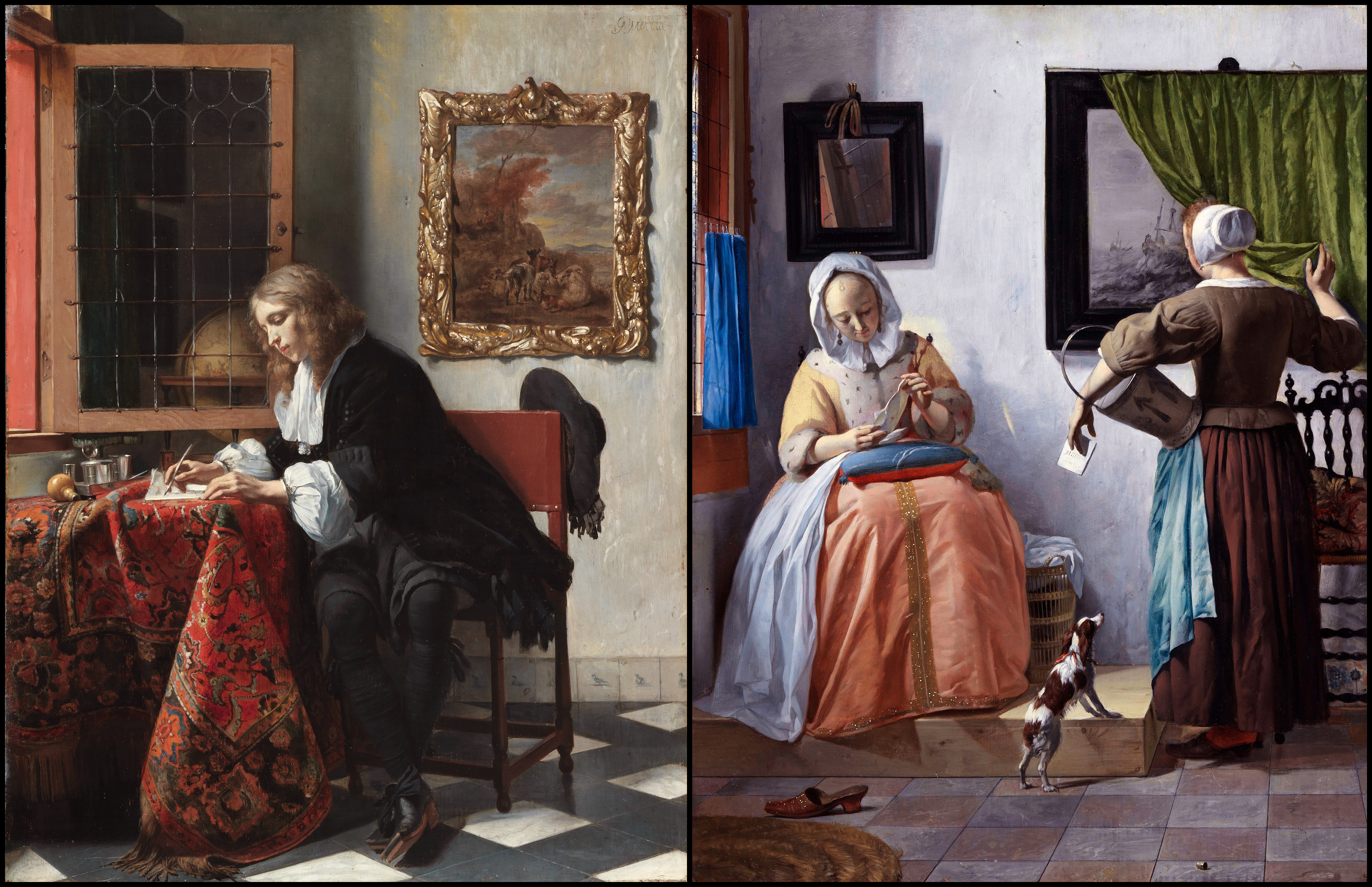 Man Writing Letter and Woman Reading Letter, two paintings by Gabriël Metsu combined into a dyptich